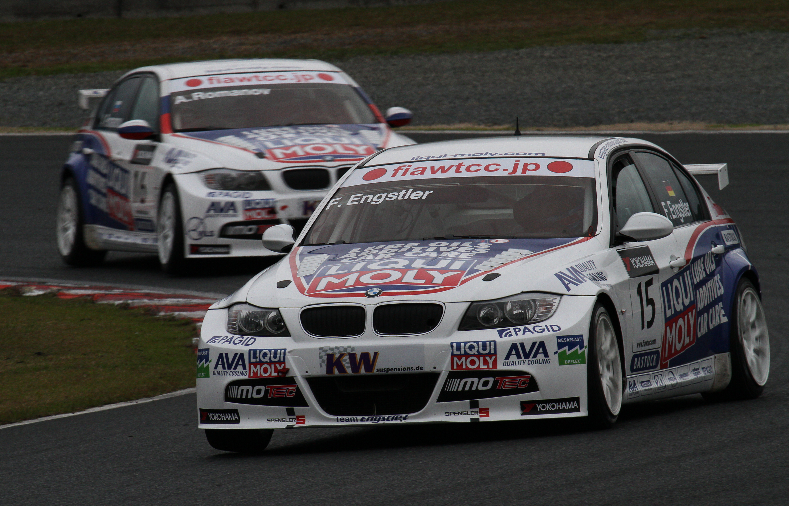 World Touring Car Championship 2010 Race of Japan: Franz Engstler (Liqui Moly Team Engstler) during the 1st qualify session on Saturday.